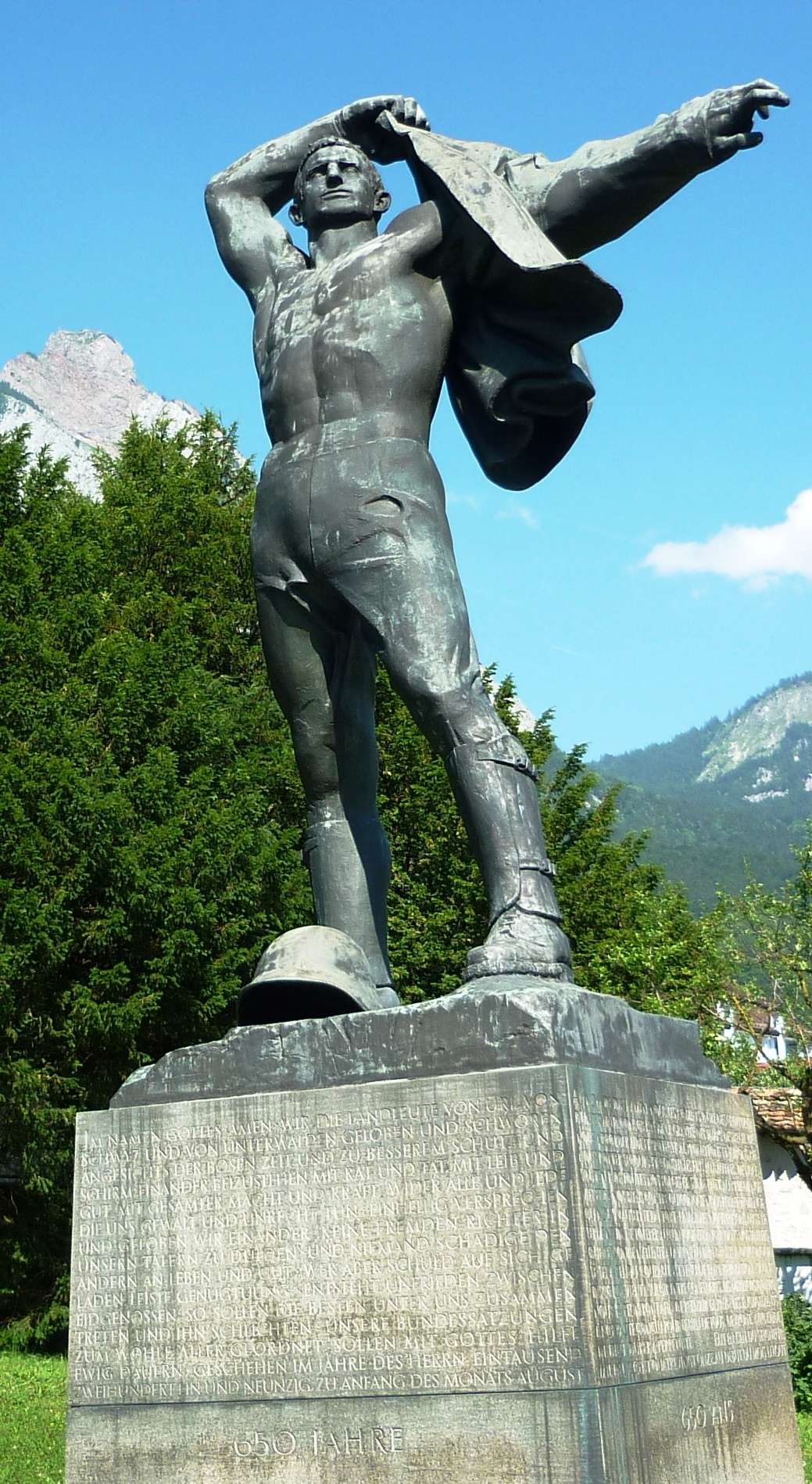 The bronze statue by Hans Brandenberger allegorizes readiness for defense. Originally shown at the Landi 1939 national exhibition, the statue was moved to the grounds of the Bundesbriefarchiv (Schwyz, Switzerland) in 1941 to mark the 650-year jubilee of the Swiss confederacy.